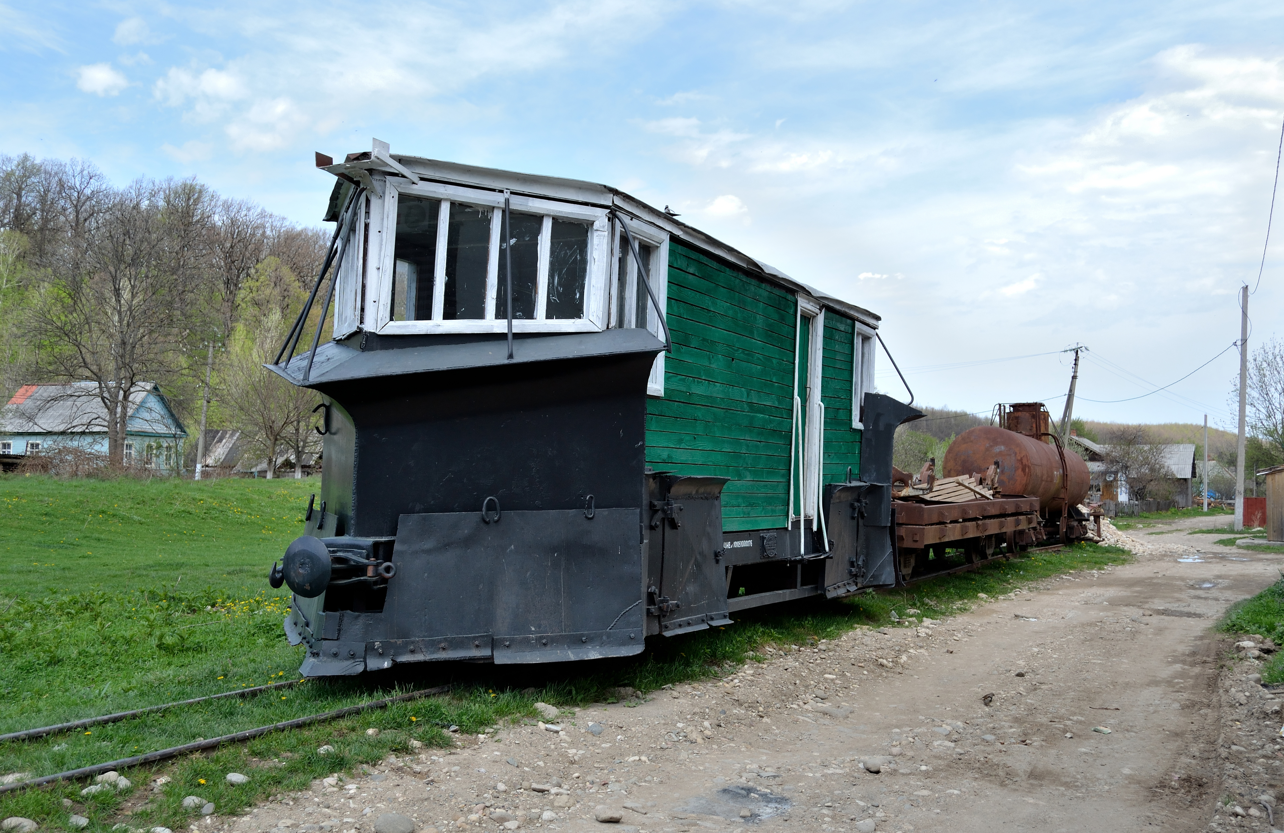 This is a narrow-gauge snowplow. Model is unknown, but I think that it is СО750 with a homemade plow. It is in deadlock of reversal triangle on Guamka village. The side number is unknown.